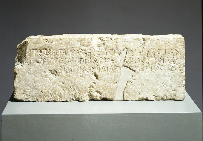 Greek, Attic; Stele, inscribed base; Stone Sculpture